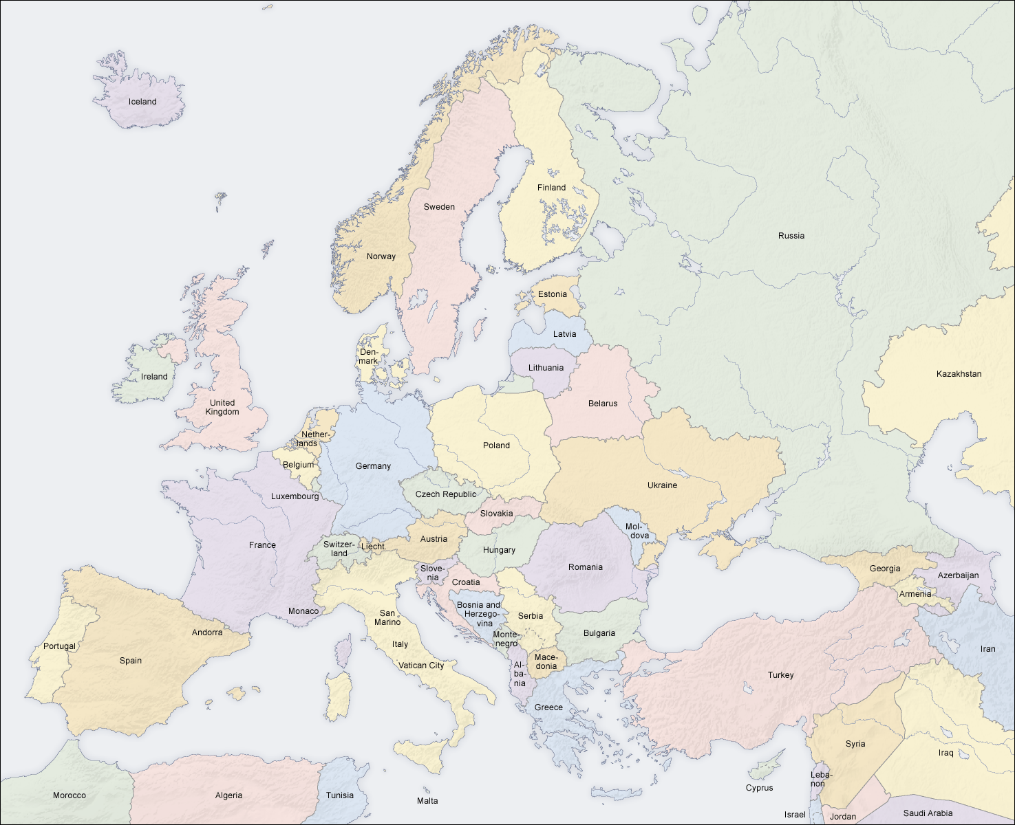 Map of countries in Europe